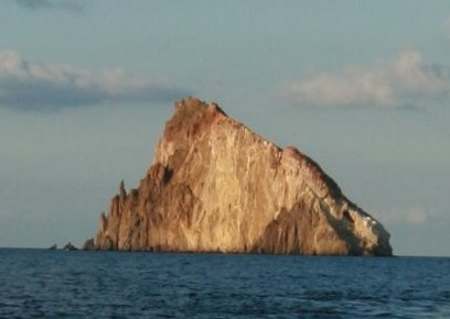 Islet of , Aeolian Islands, Italy